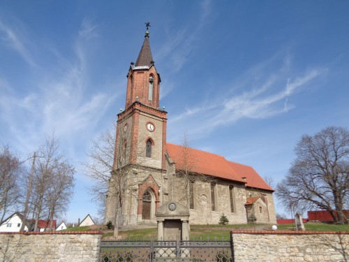 Church St. Stephani in Mehringen in Saxony-Anhalt, Germany